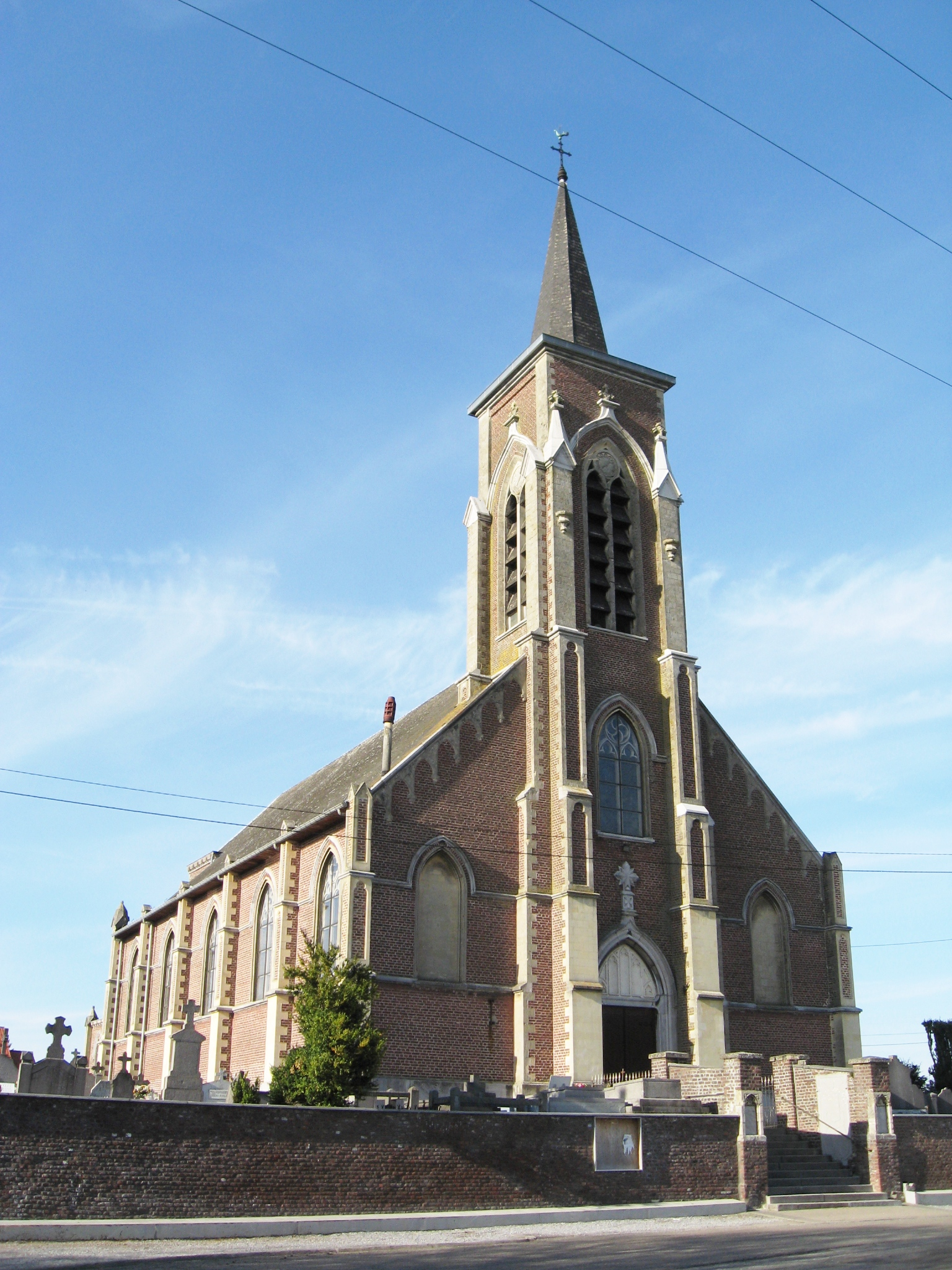 Church of Saint Victor in Corswarem, Berloz, Liège, Belgium